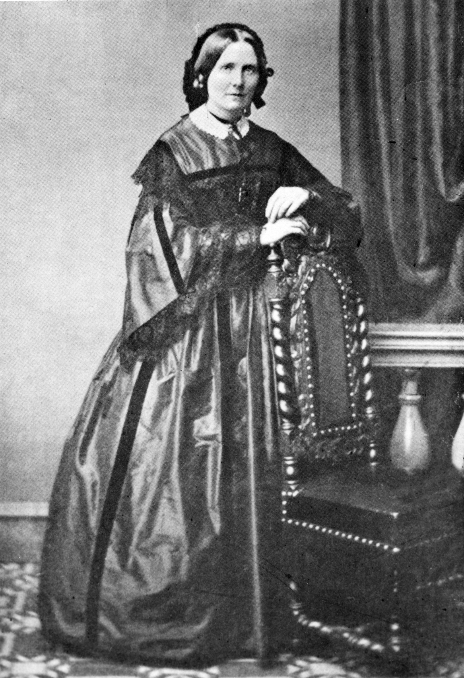 Photograph of Sophie Dedekam, taken c. 1860.